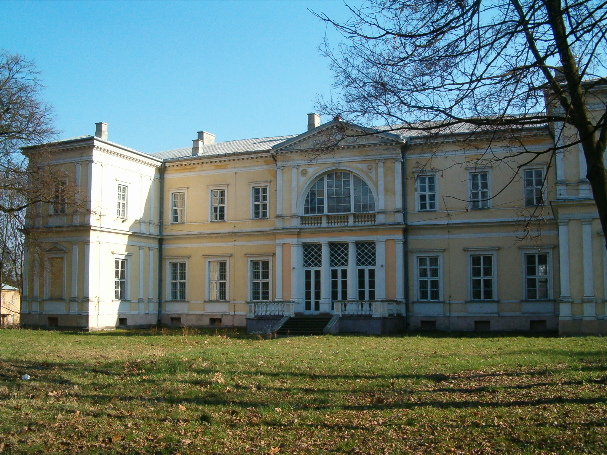 The palace of Wielopolscy in Chroberz, Poland, behind